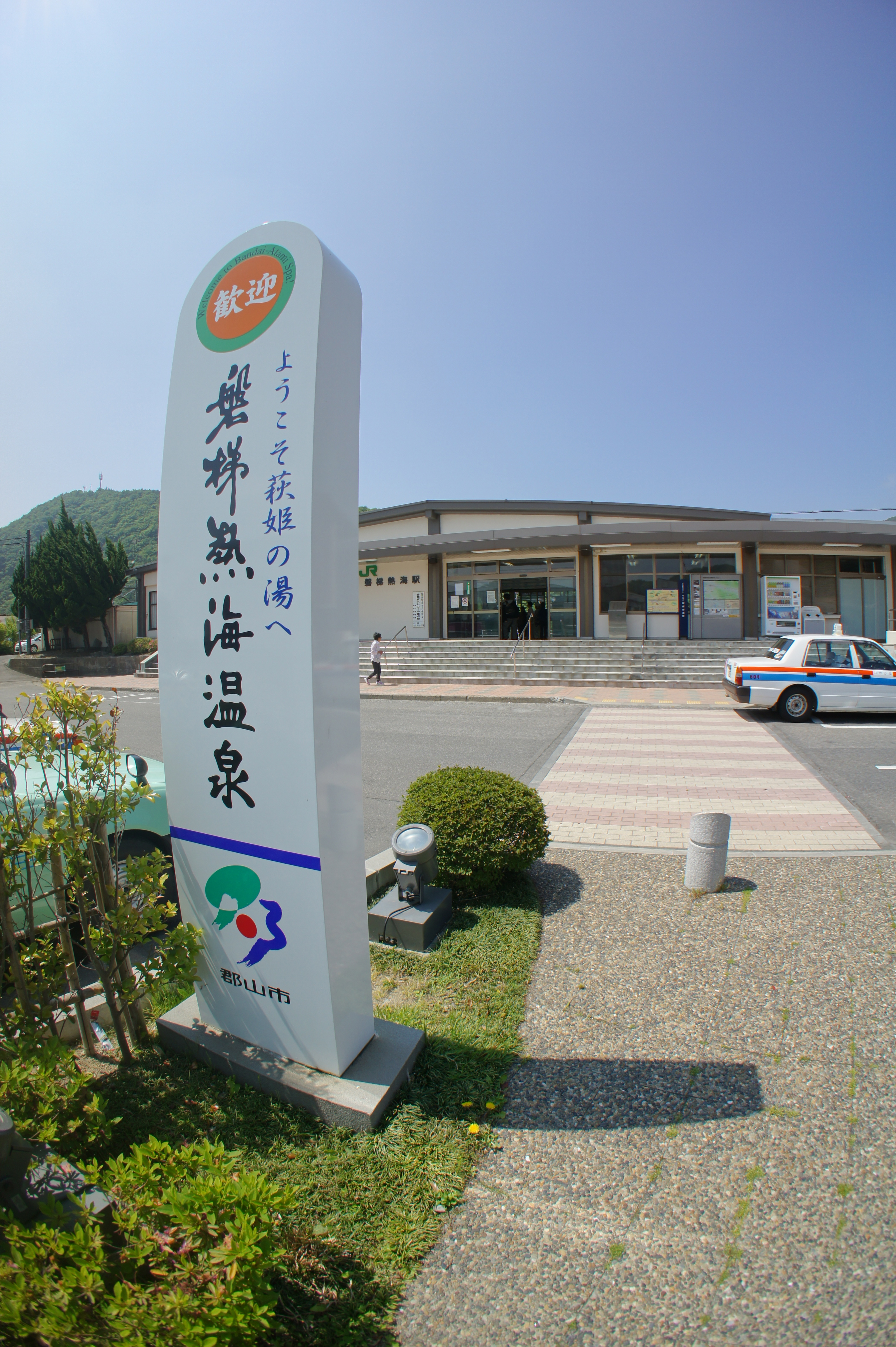 Bandai-Atami Station front